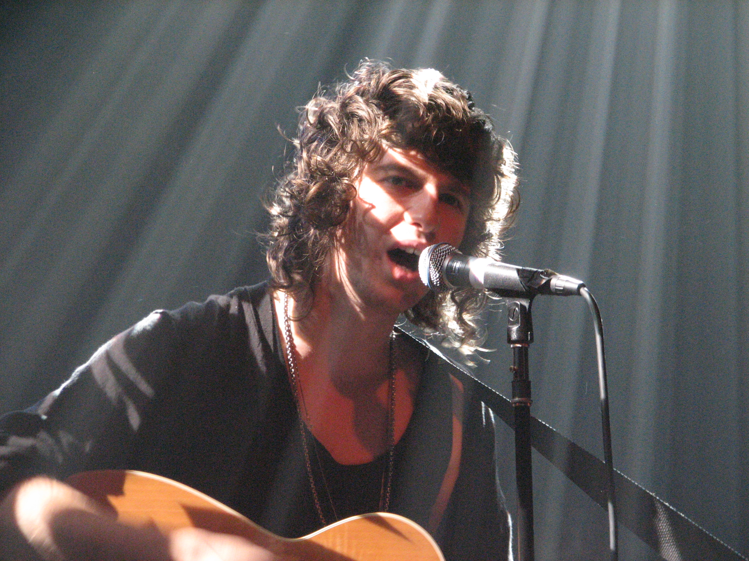 Blog Entry on the show